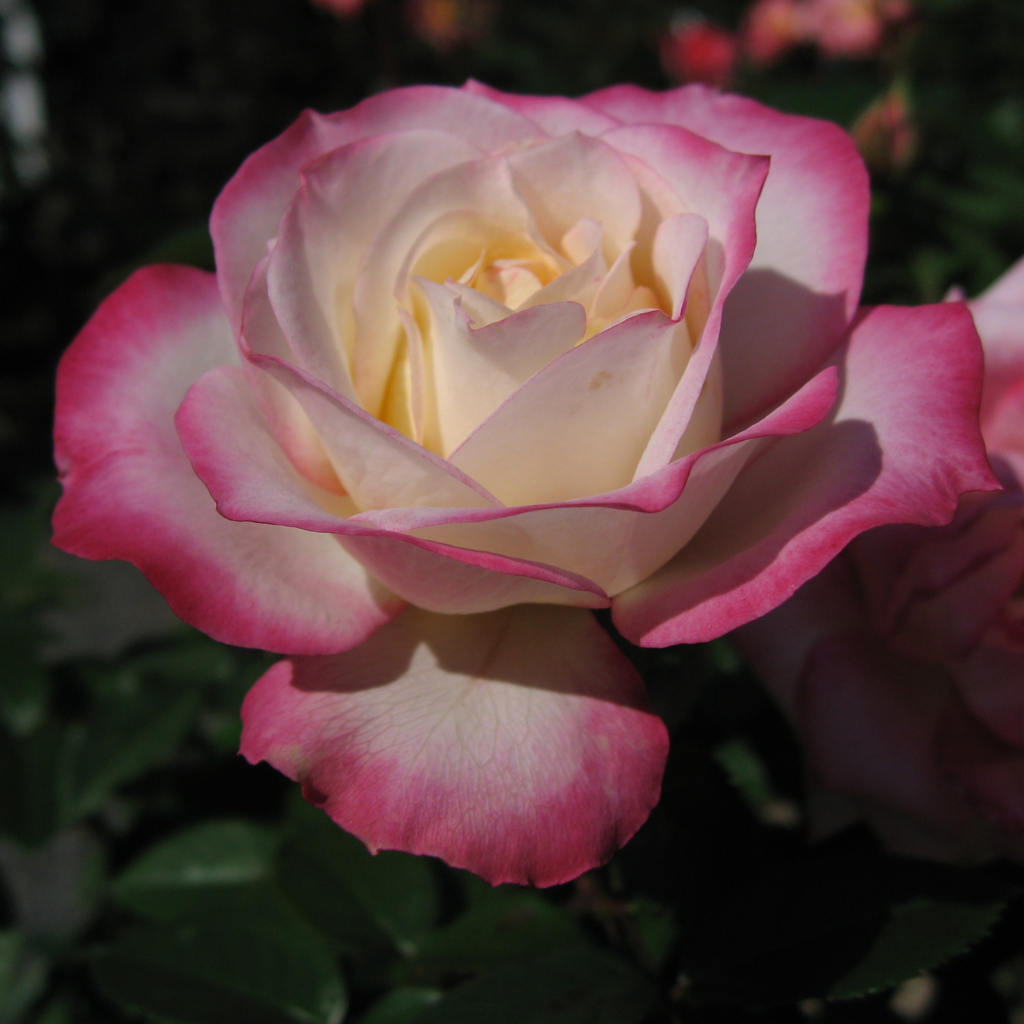 Rosa 'Minuette', FL, Walter Lammerts (1969) Jingu Rose Garden, Uji-Nakanokiri Ise, Mie Japan.